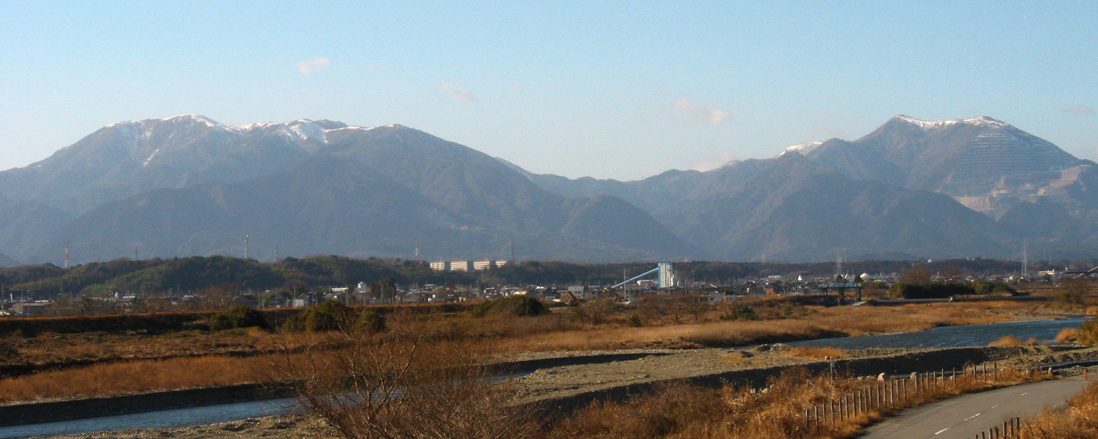 Mt.Ryugatake(left) & Mt.Fujiwaradake(right)I took this image on Feb.4 2007, at Oyasiro bridge Toin Cho Inabe, Mie Pref., Japan.Mt.Ryugatake(left):Height=1100m Mt.Fujiwaradake(right):Height=1130m 鈴鹿山脈の竜ヶ岳（左：標高1100m）と藤原岳（右：標高1100m）三重県員弁郡東員町の大社橋で撮影